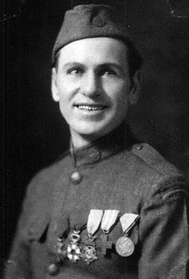 WWI Medal of Honor recipient Thomas C. Neibaur. He wears the French Croix de guerre with bronze palm, the French Légion d'honneur in the degree of Chevalier, the Medal of Honor, the Italian Croce al Merito di Guerra and the Montenegrin Medal for Military Bravery.